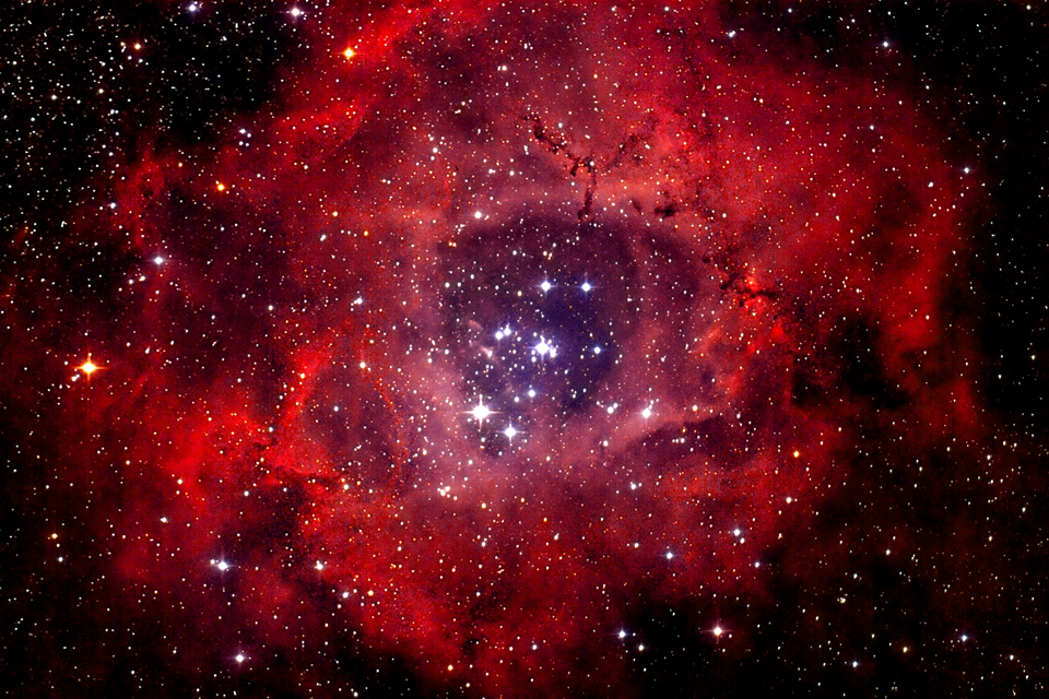 Picture of the Star Cluster NGC 2244 and the surrounding Rosette Nebula Telescope: 800mm F4 GSO Newton Imager: Modified Canon EOS 550D (IR Block removed) 3 RGB Frames stacked with 800 secs each Postprocessing with PixInsight / Photoshop Imaged on 2012-11-12 Location: 61381 Friedrichsdorf / Germany